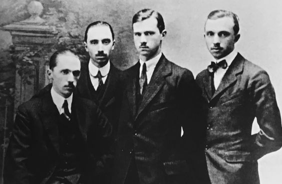 The four eldest sons of Four of the children of Robert I, Duke of Parma by his second wife, Maria Antonia of Portugal. (L-R) : Sixtus (1886-1934), Xavier (1889-1977), Felix (1893-1970) and René (1894 –1962) of Bourbon-Parma.